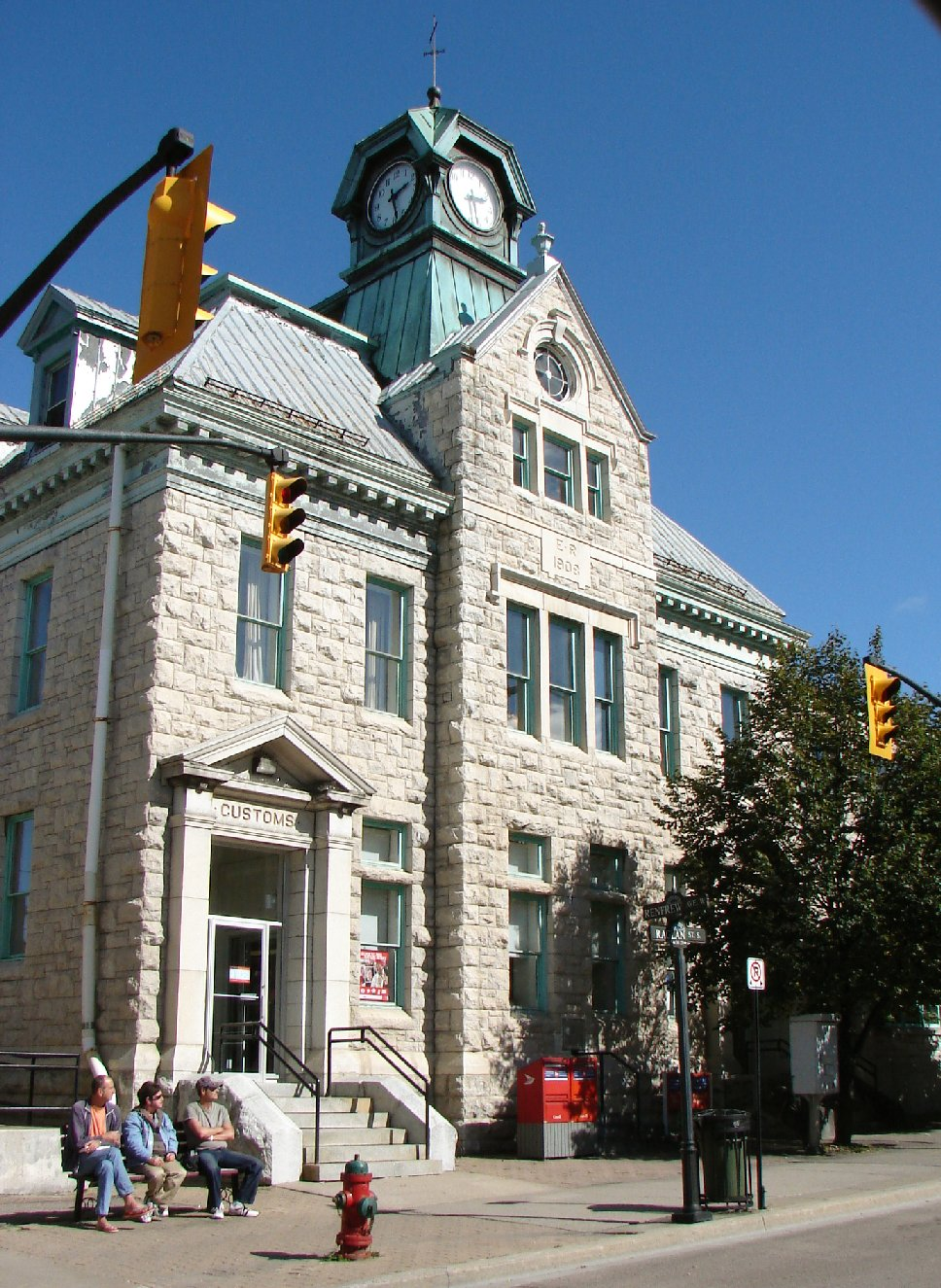 Historic Customs Building, now Post Office in Renfrew, Ontario, Canada